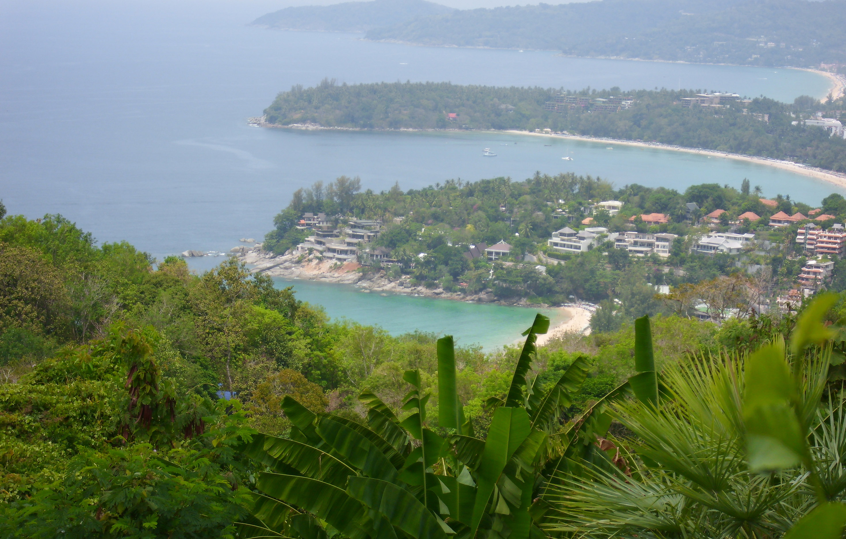 Karon View Point. From this point can be seen 3 bays: Kata Noi, Kata bay and Karon bay.